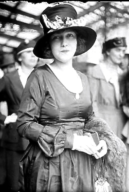 Dorothy Gish standing with in a crowded area, possibly a train station, in Chicago, Illinois.